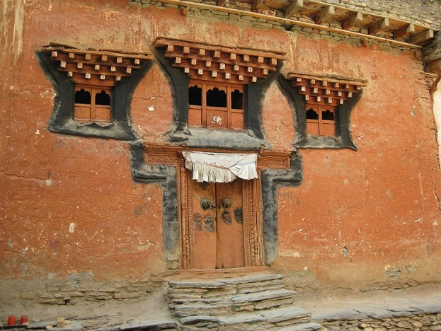 photo-front view of chhairo gompa lhakang, Chhairo, lower mustang, Nepal